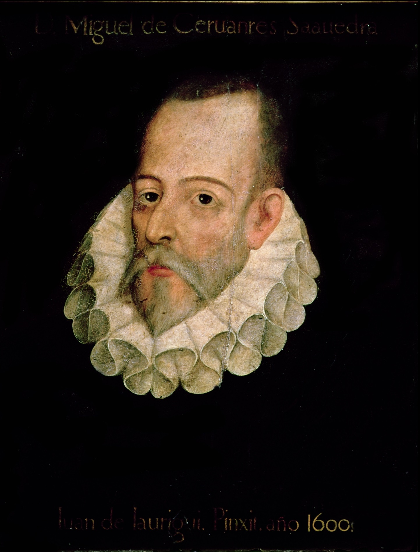 Portrait of Miguel de Cervantes Saavedra commonly said to be that which, according to the prologue to Cervantes' "Exemplary Novels", was painted by Juan de Jáuregui. Modern scholarship does not accept this, or any other graphic representation of Cervantes, to be authentic, nor is there any documentation for Jáuregui having painted this portrait.